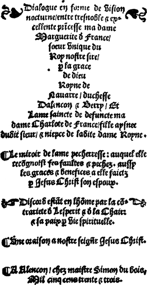 First page of Le miroir de lame pechereſſe by Marguerite de Navarre (1492-1549)